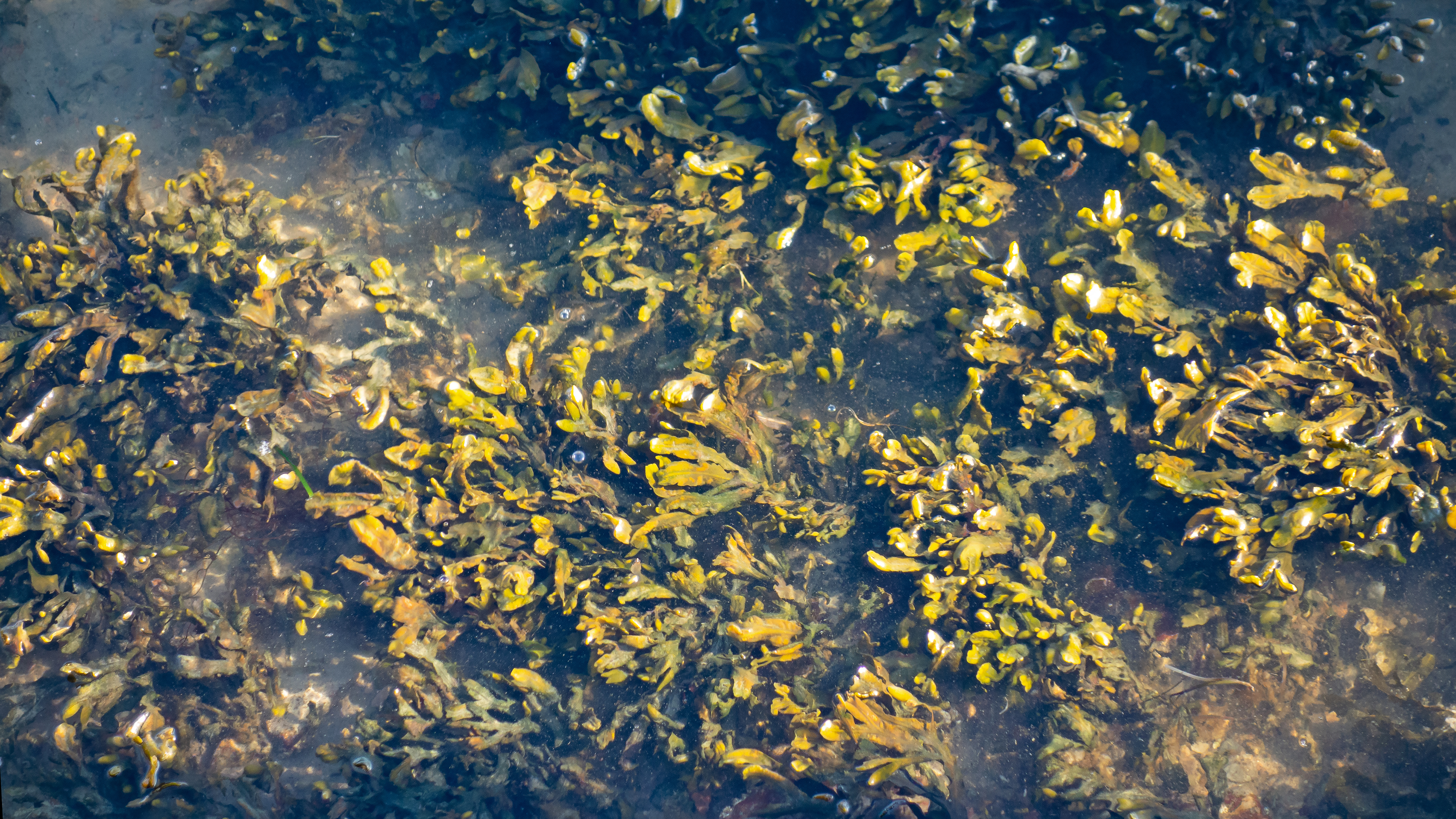 Algae, mostly bladder wrack (Fucus vesiculosus) at the shore of Brofjorden In Norrkila, Lysekil Municipality, Sweden.